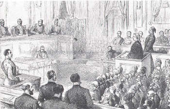 Orabi trial